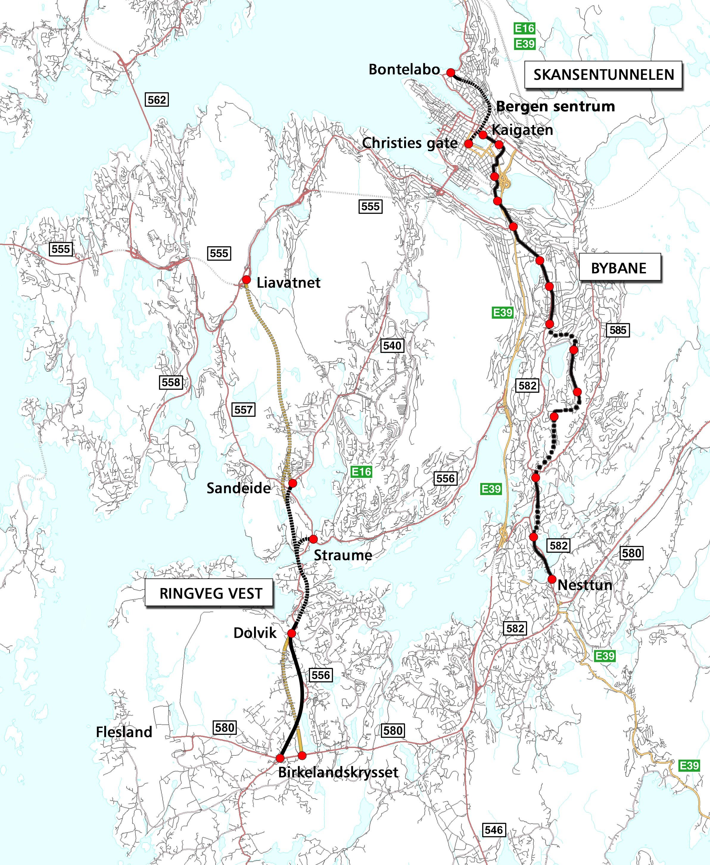 Map of the Bergen Program showing the first stage (black) and further stages (yellow) of the Bergen Light Rail, the Skansen Tunnel and Ring Road West.